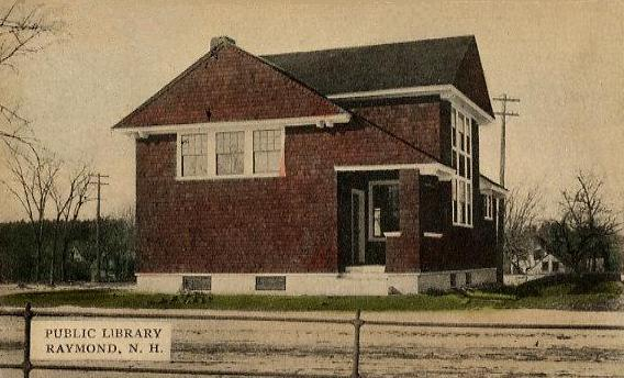 The Dudley-Tucker Library, Raymond, NH; from a 1908 postcard advertised on eBay. It was built with a $2000 grant from Andrew Carnegie.